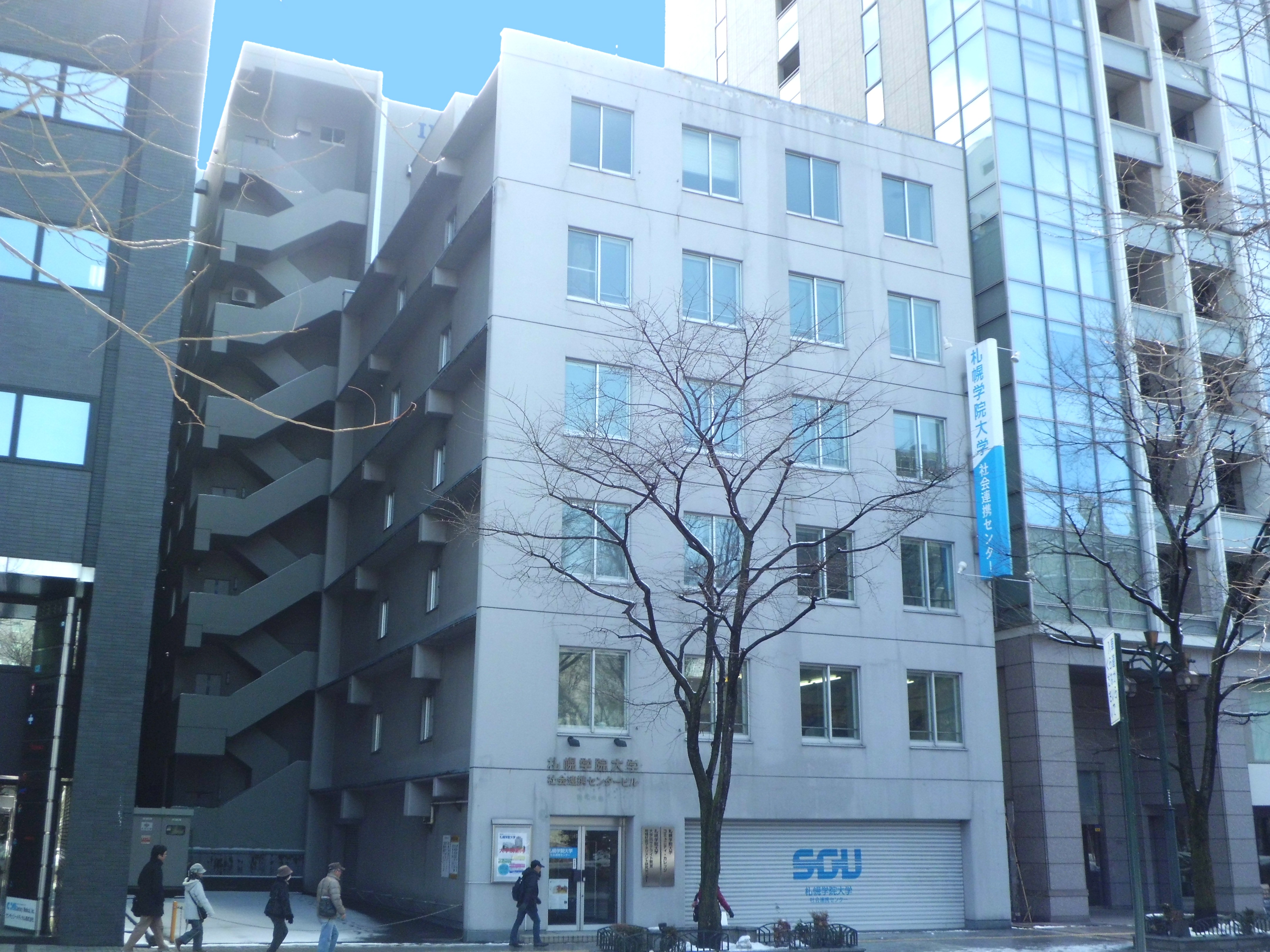 Sapporo Gakuin University; Social Collaboration Center.